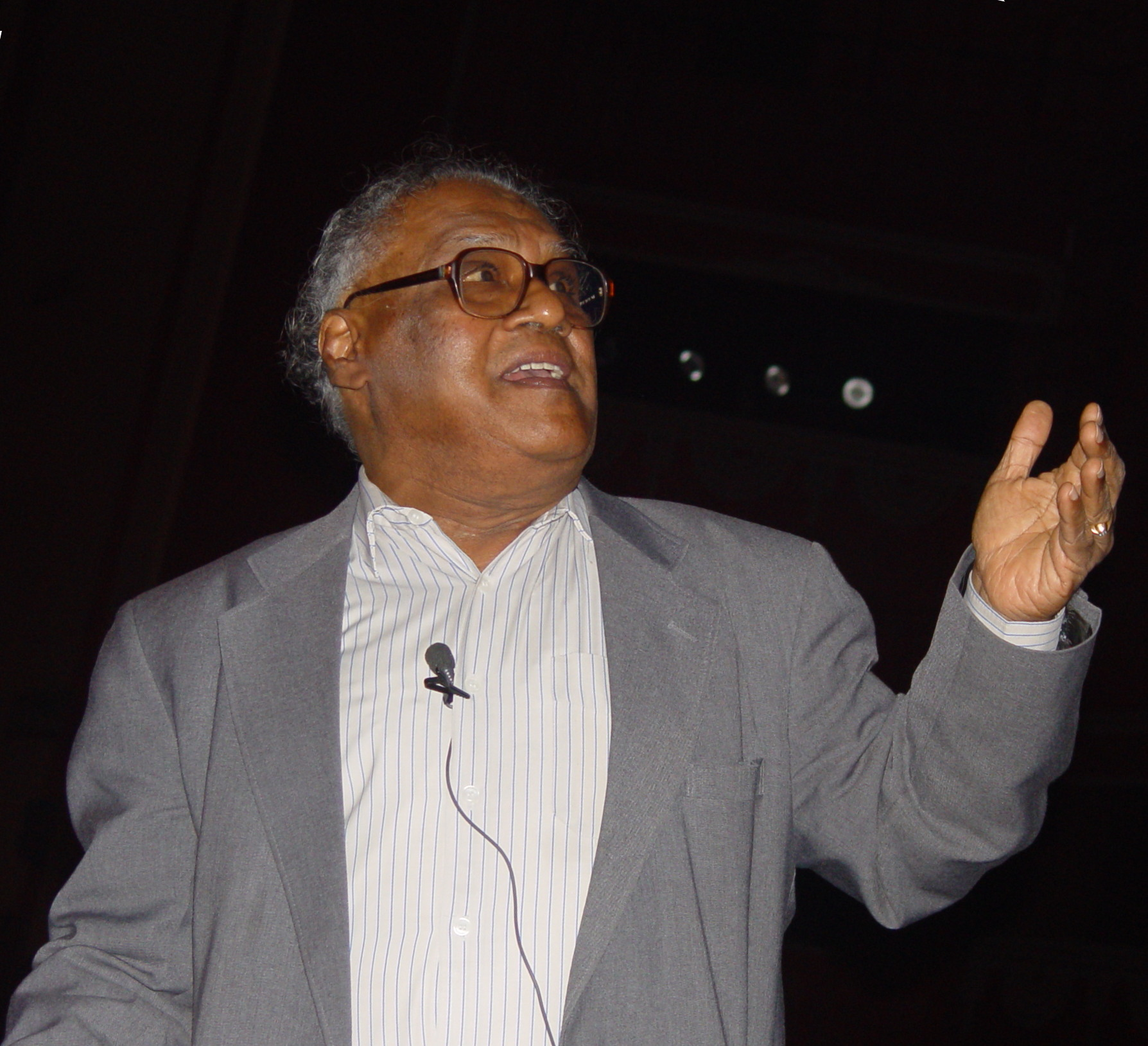 Chintamani Nagesa Ramachandra Rao, also known as C.N.R. Rao, born June 30, 1934, Bangalore, India is an Indian chemist who has worked mainly in solid-state and structural chemistry. Professor Rao delivering a lecture to the students at Science City Kolkata auditorium.